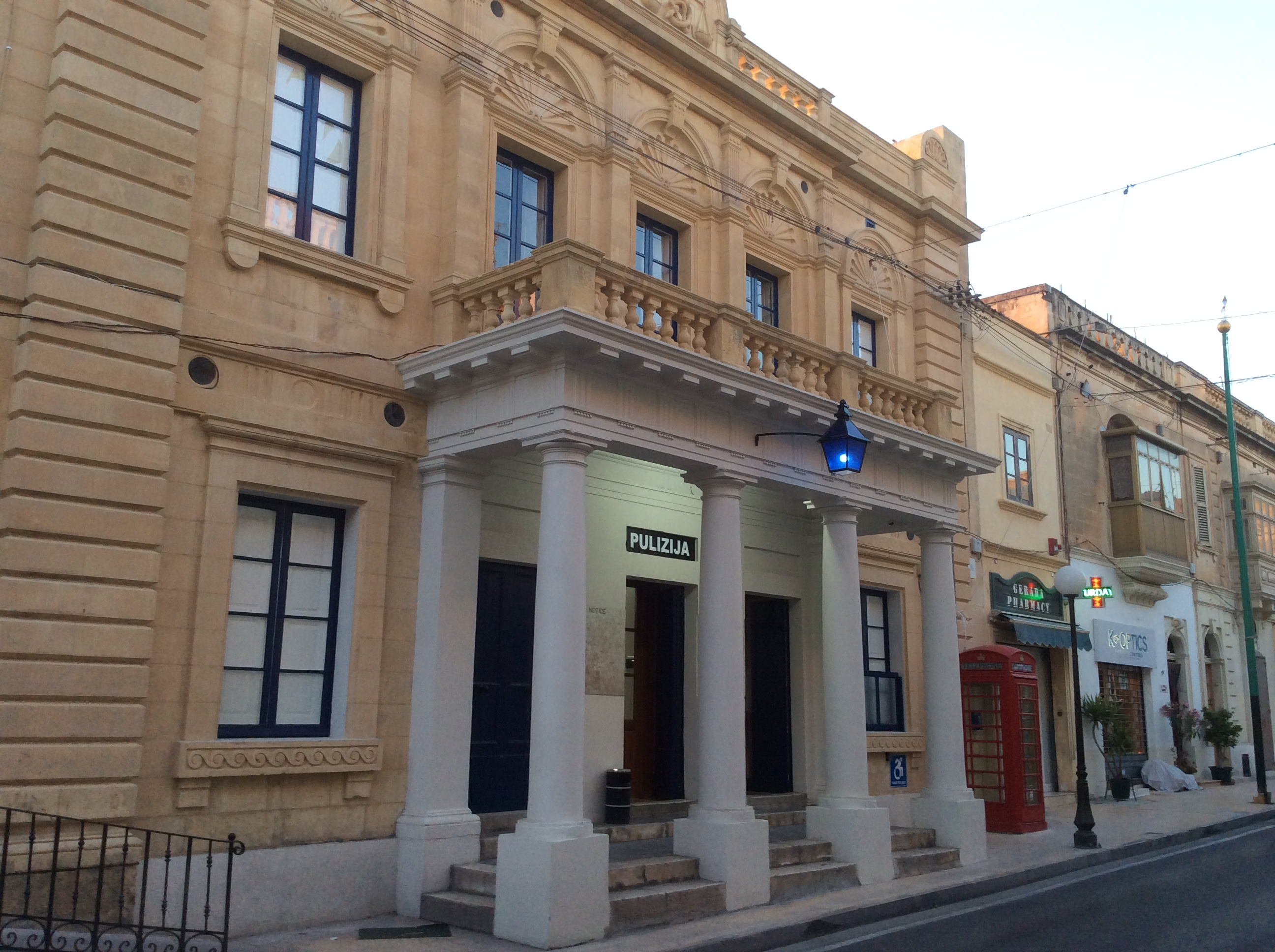 Zejtun Police Station